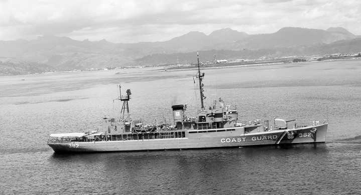 United States Coast Guard cutter USCGC Beribg Strait (WHEC-382, ex-WAVP-382), in Vietnam War service